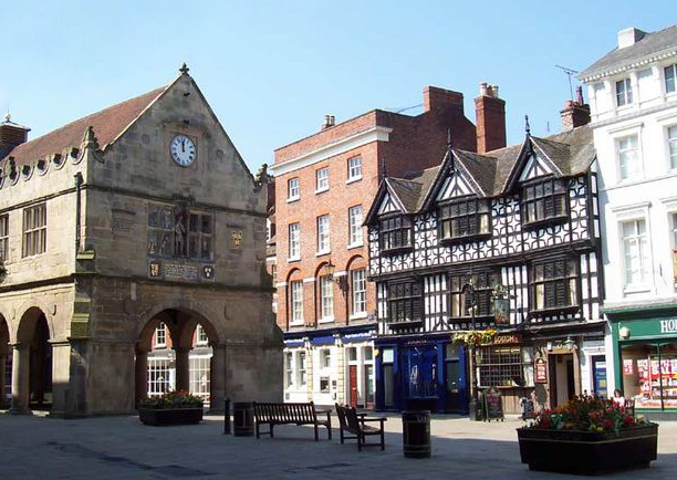 The square with the old Markt Hall of Shrewsbury, en: England. Public domain work by User:Samluke777. Edited by User:Asdfasdf1231234